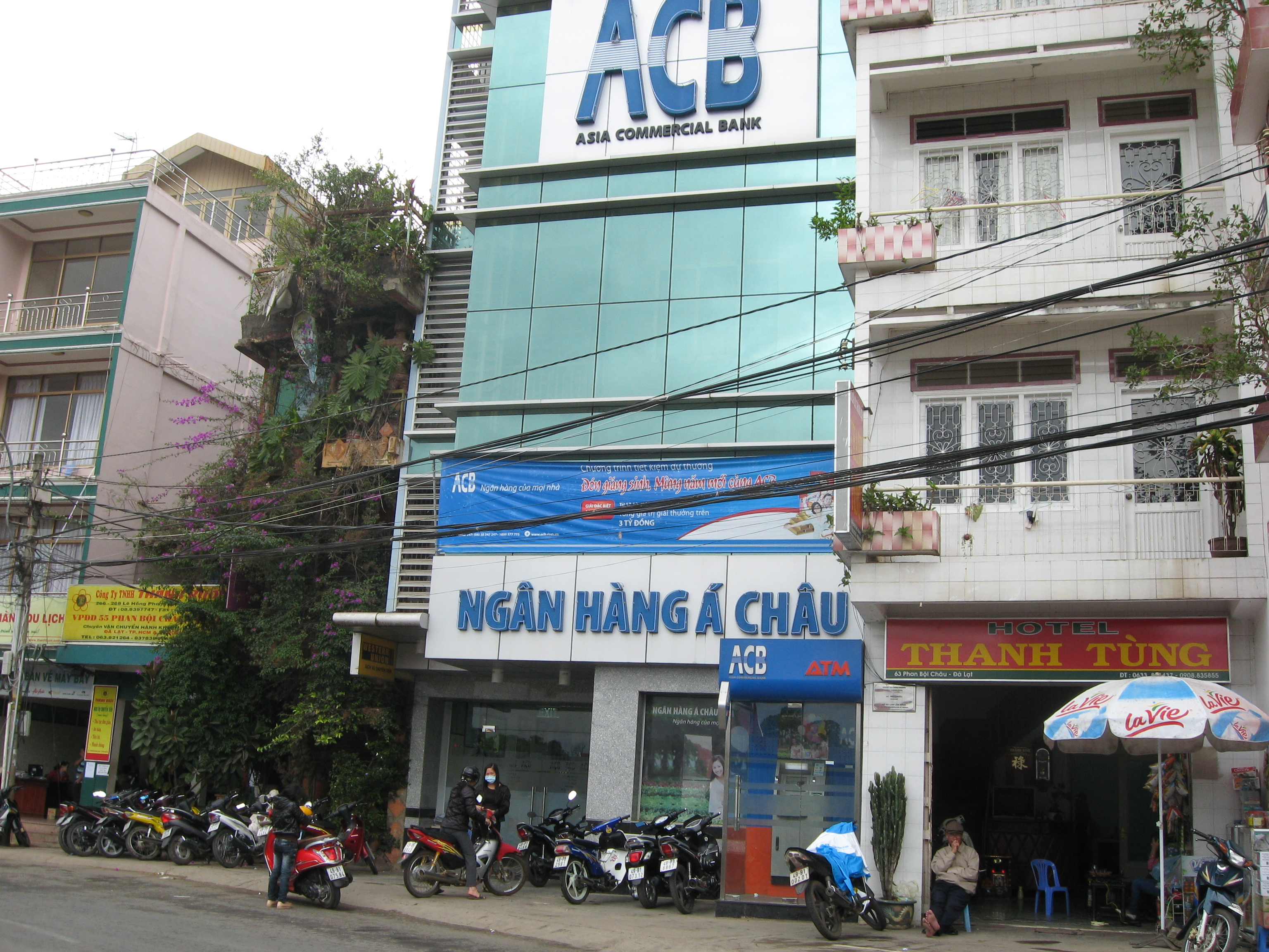 ACB 61 Phan Boi Chau, Da Lat